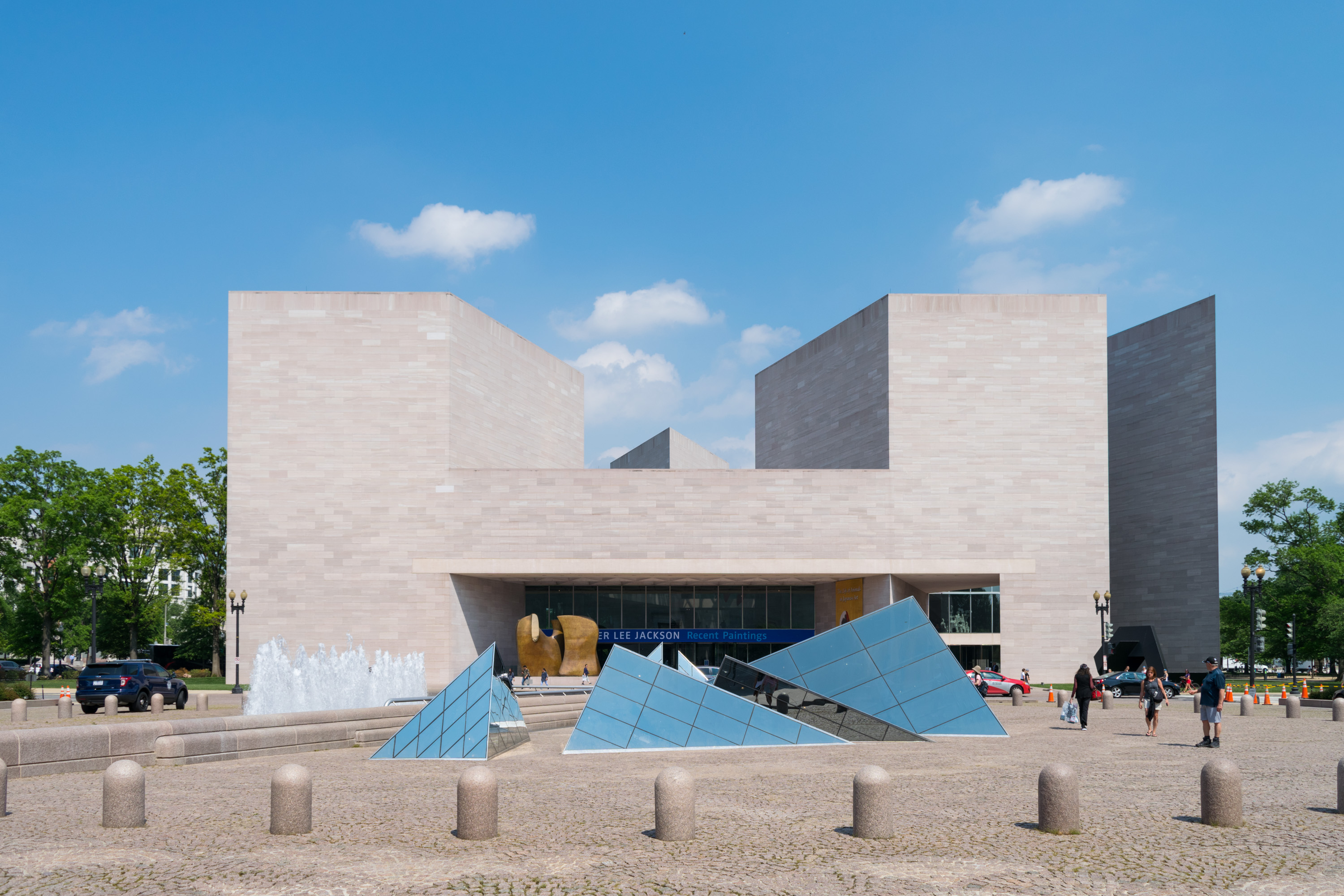 East Building of the National Gallery of Art photographed from the West Building.